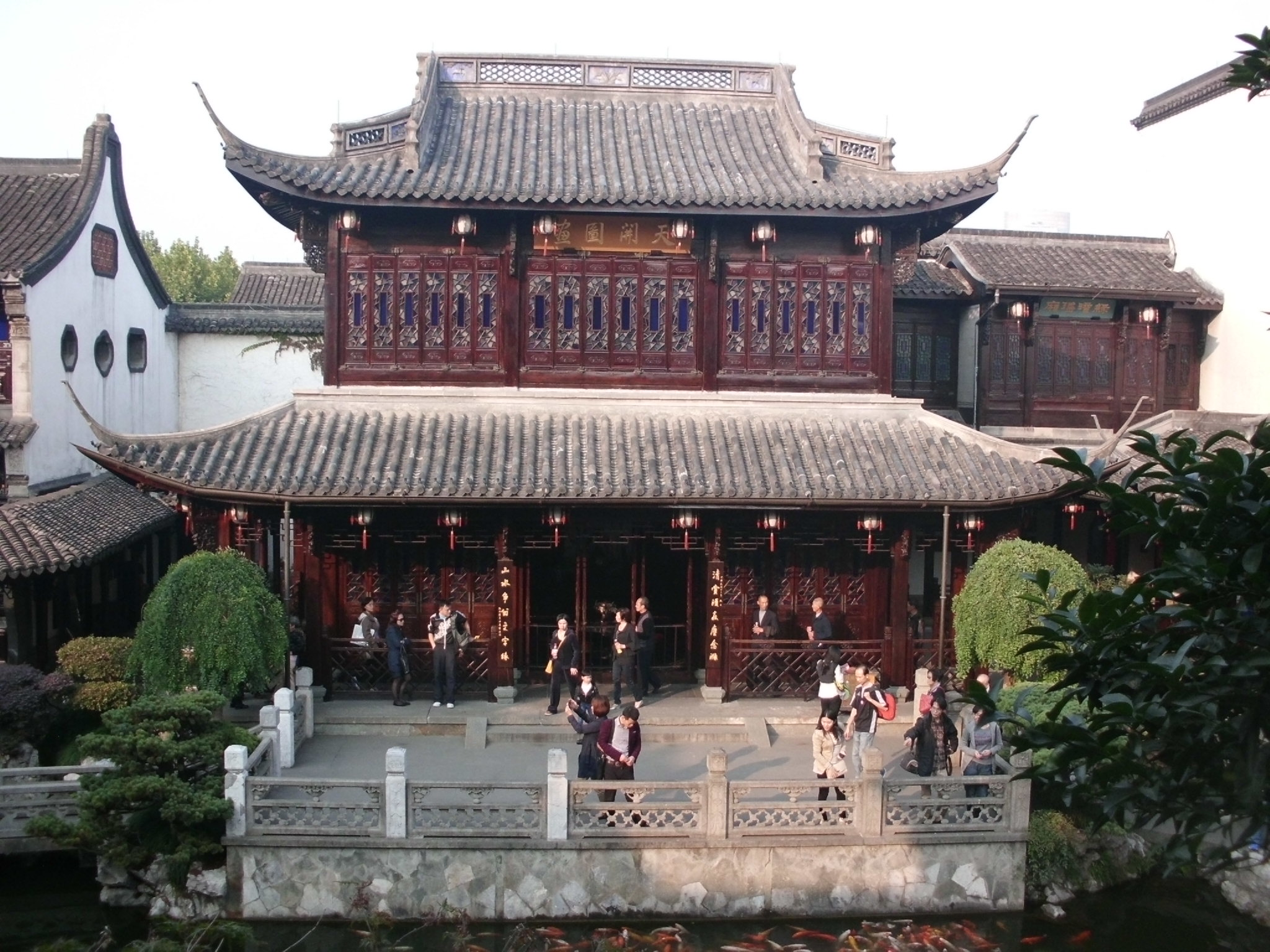 Former Residence of Hu Xueyan